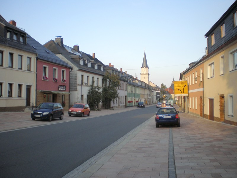 City of Kirchenlamitz, Bavaria, Germany